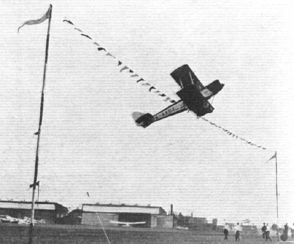 Avro Avian of S. Thorn during the Challenge 1930 contest